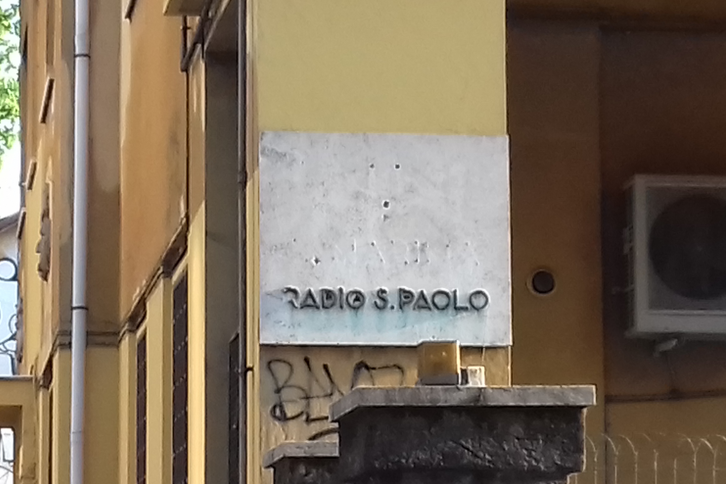 Plaque of San Paolo former military radio station, built in 1917 and dismantled in the 1960s